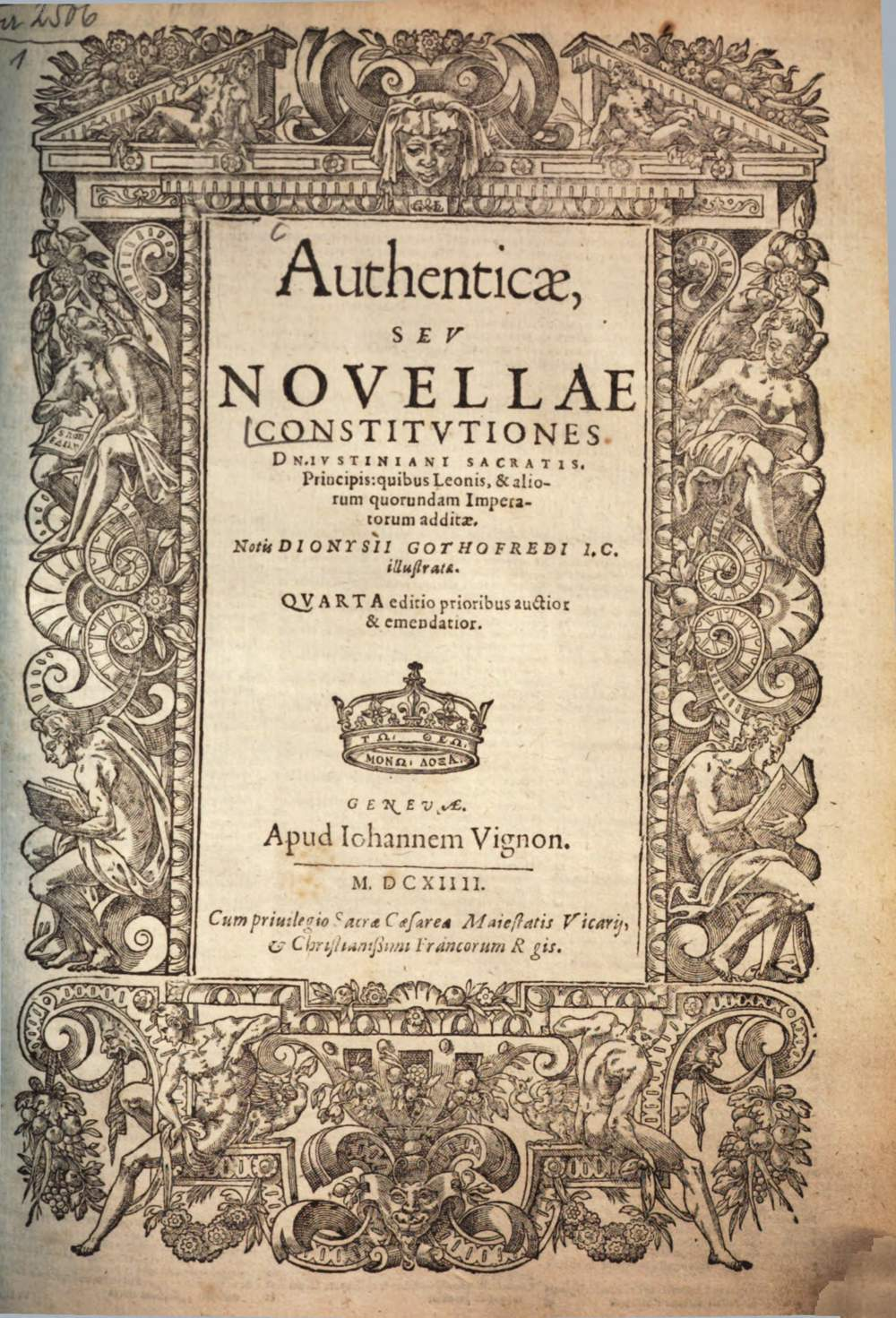 Novellae Constitutiones